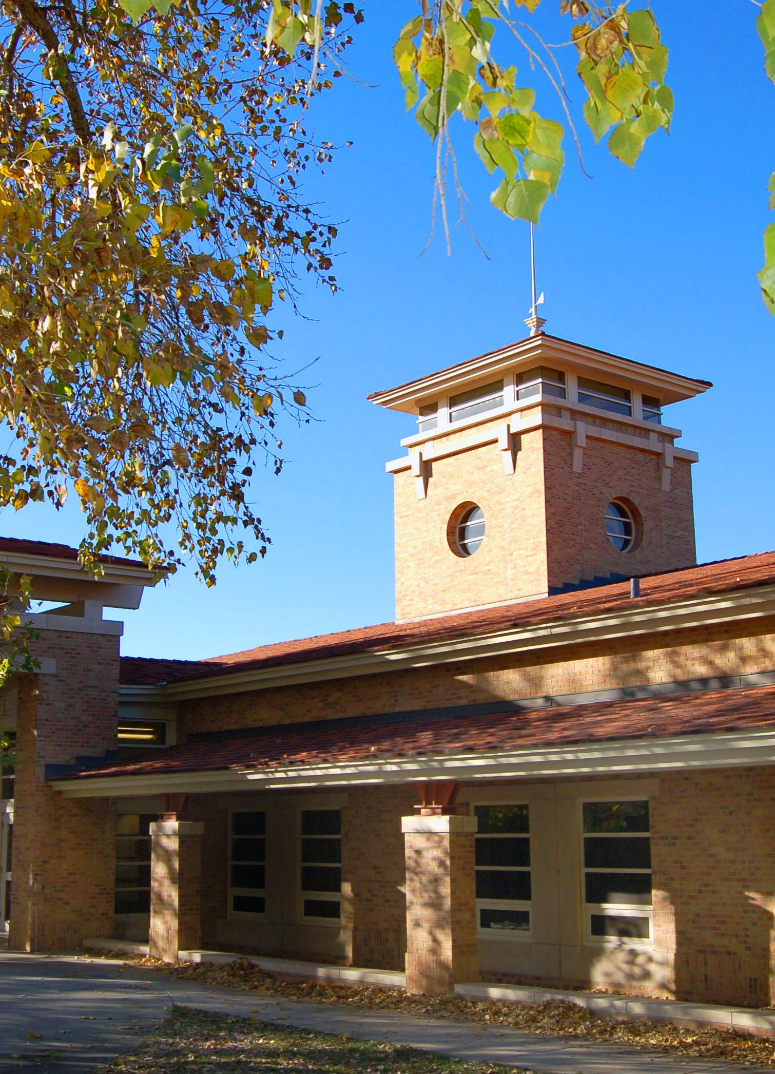 Photo of Simms Library at Albuquerque Academy, Albuquerque, New Mexico. Self-made.